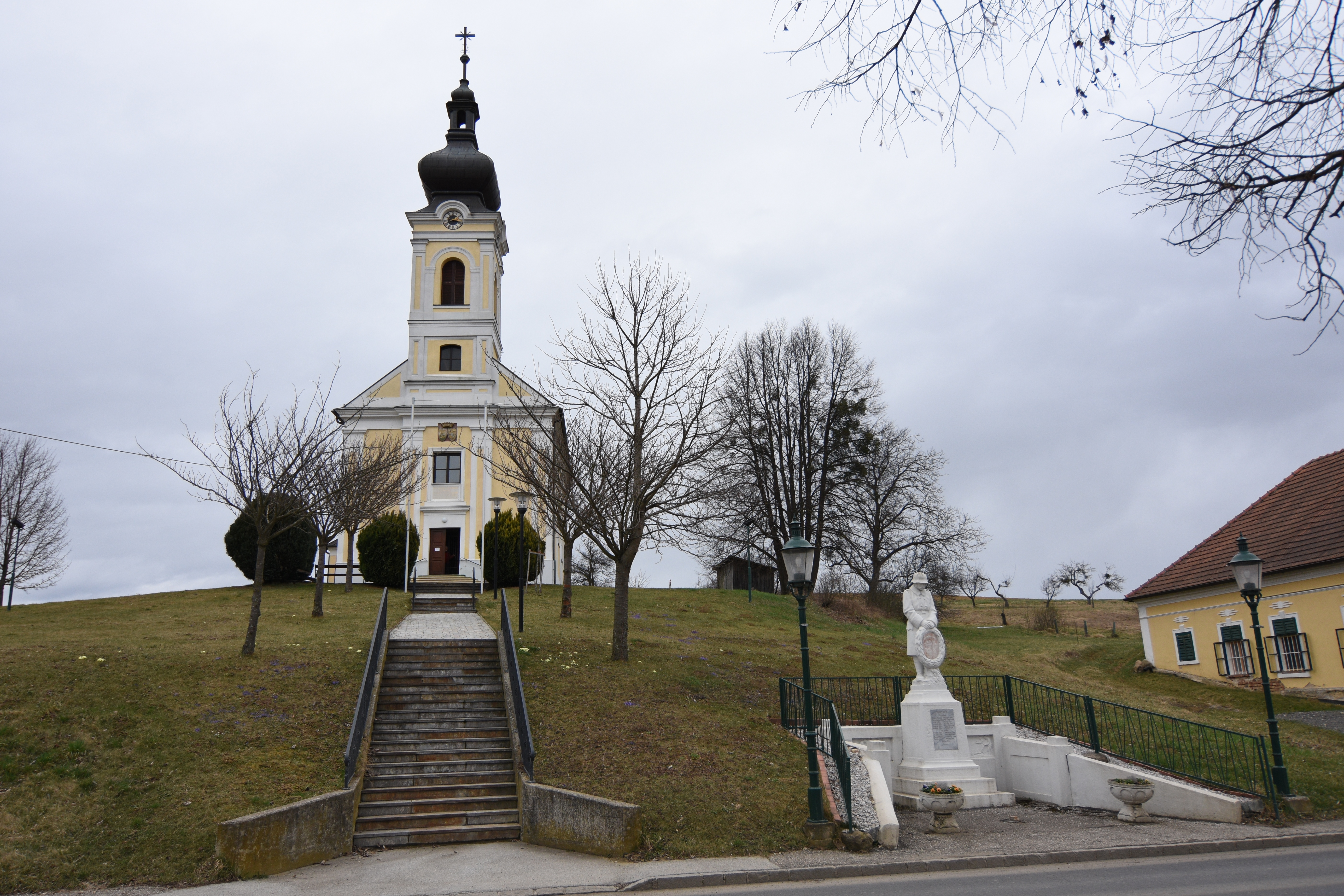 Saint James the Greater Church (Kitzladen)